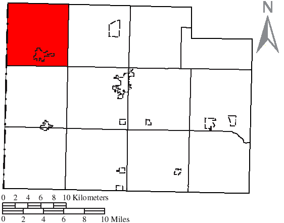 Made by the US Census and modified by myself